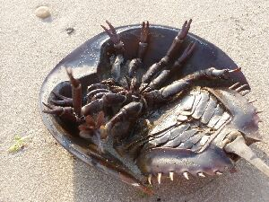 Horseshoe Crab on the beach, Delaware, USA